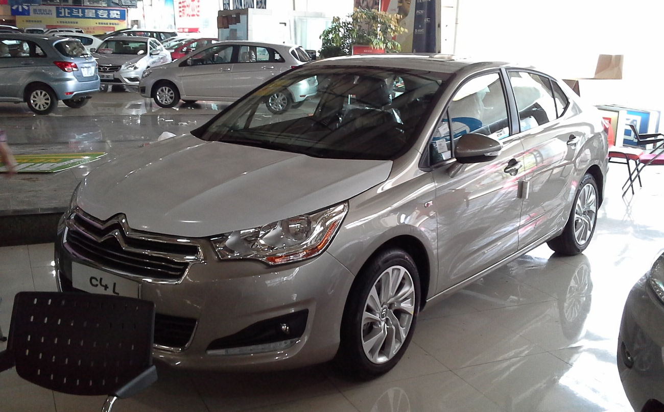 Citroën C4L photographed in Chengdu, Sichuan province, China.